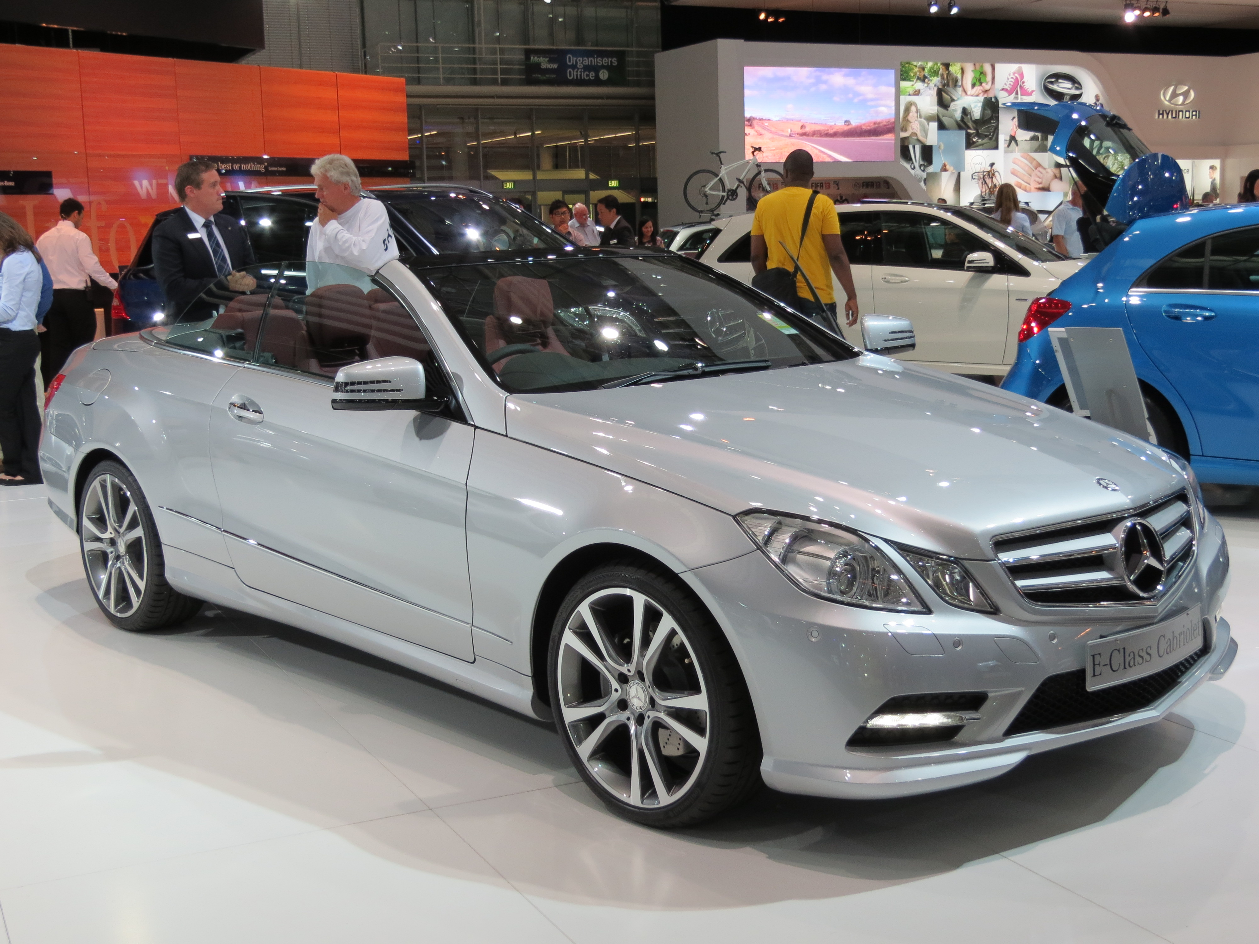 2012 Mercedes-Benz E 250 (A 207 MY12) BlueEFFICIENCY Avantgarde convertible. Photographed at the 2012 Australian International Motor Show, Sydney, New South Wales, Australia.